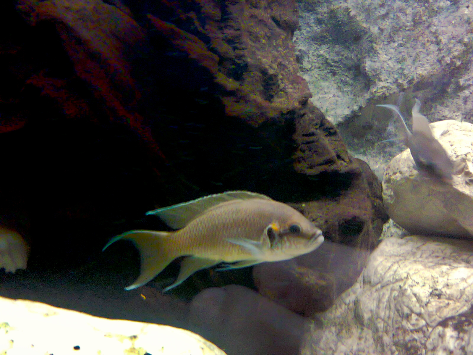 Neolamprologus pulcher in Nagyvárad Zoo; Transylvania.